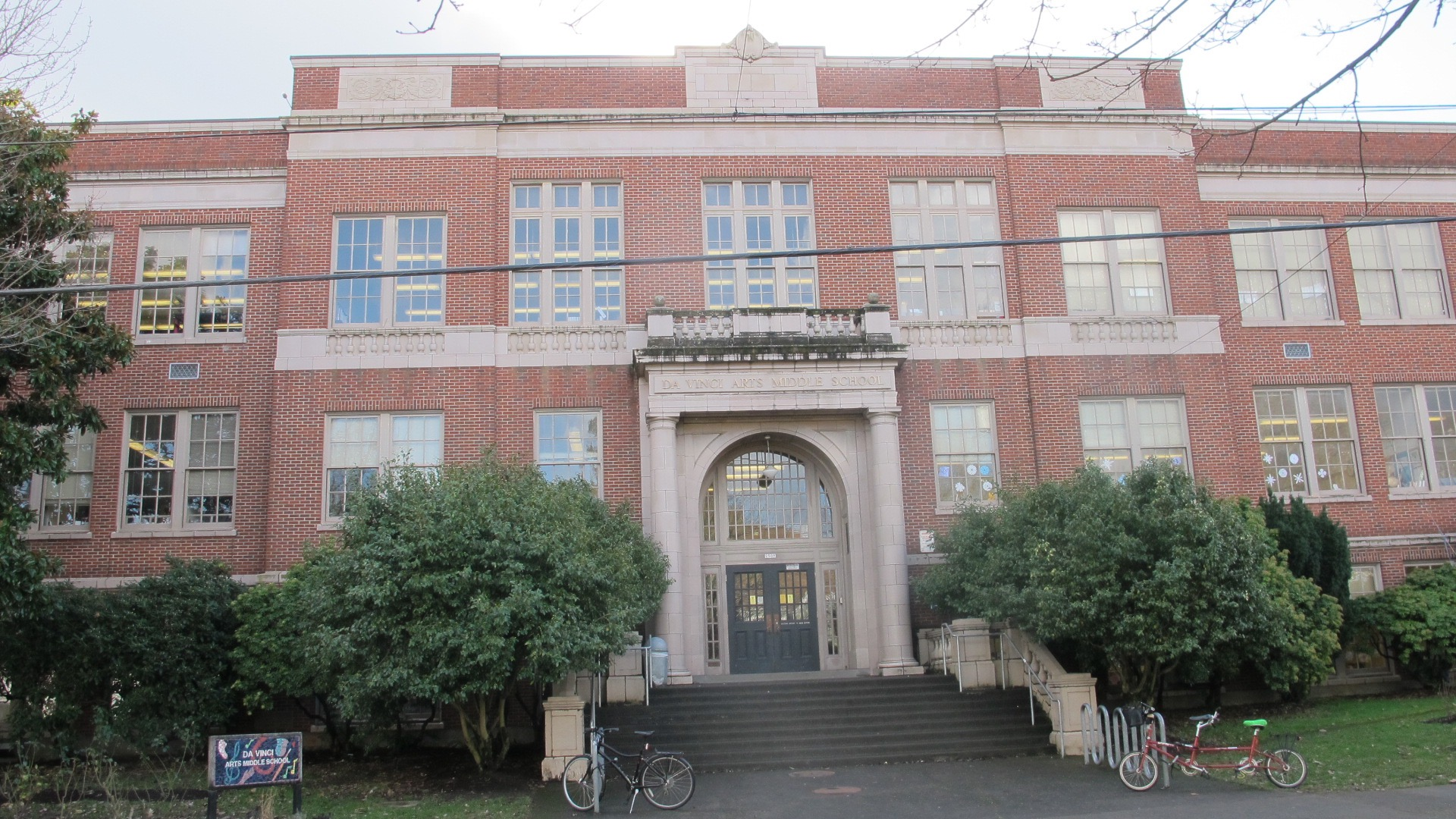 This is a photo of the front entrance of da Vinci Arts Middle School, a school in the Portland Public School district of Portland, Oregon.